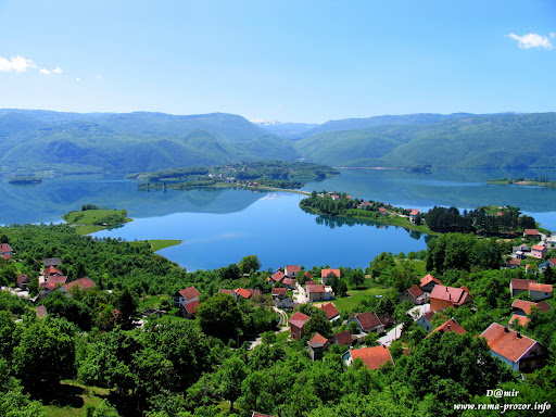 Ripci, Rama